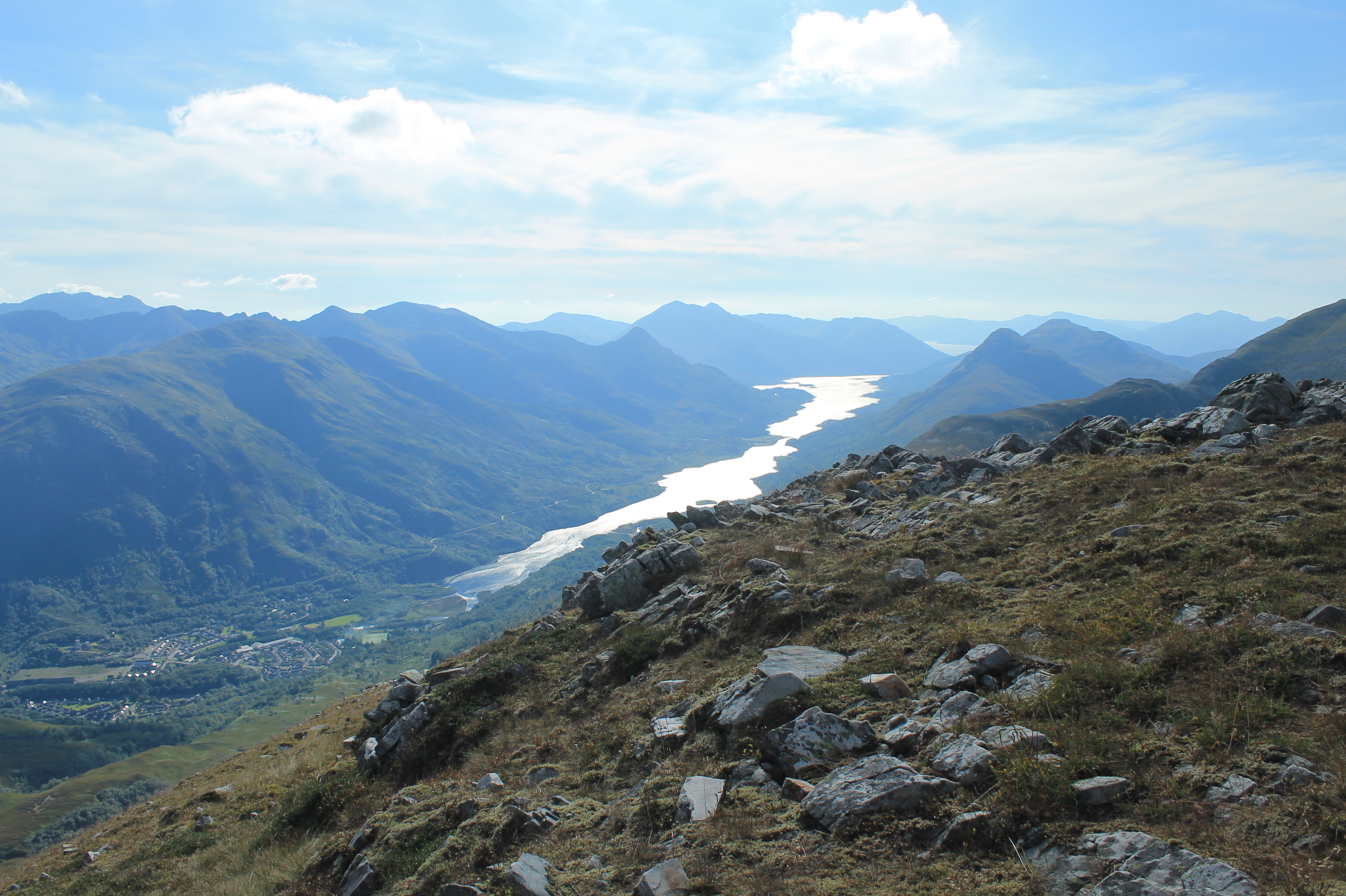 Binnein Mor and Na Gruagaichean area in Scotland.